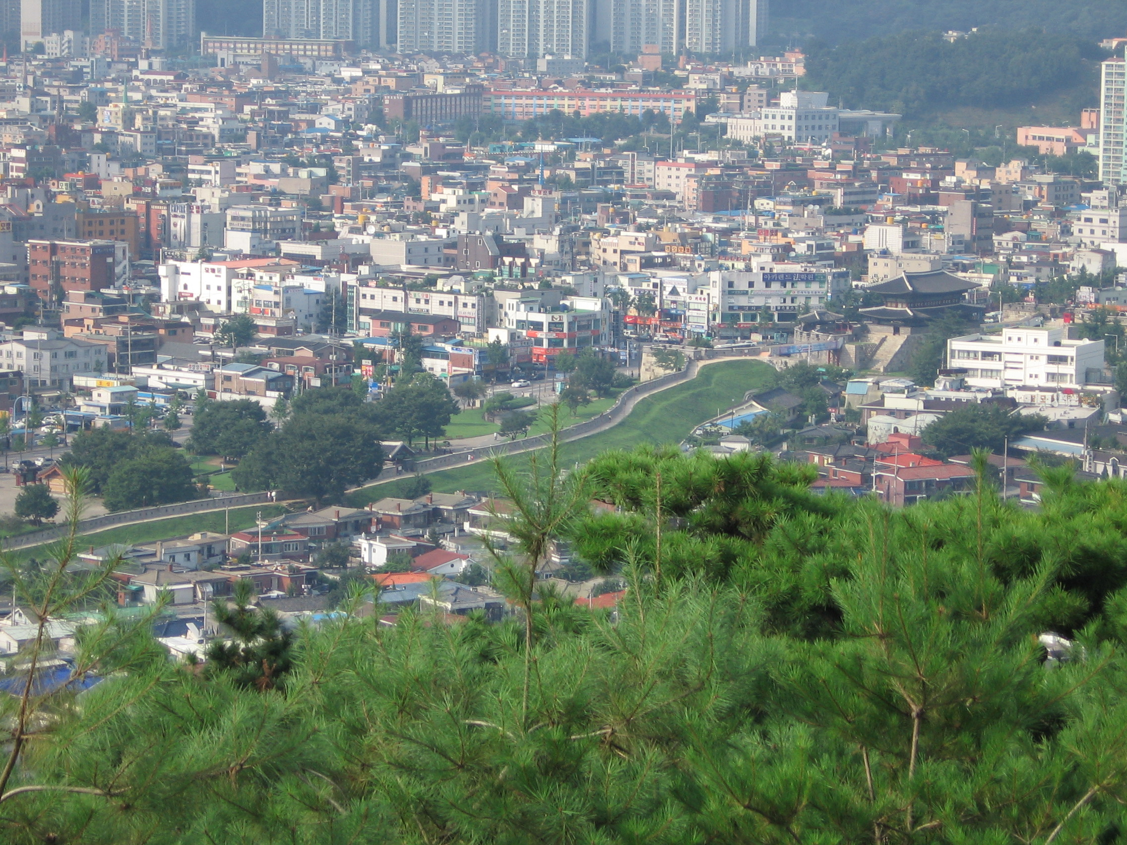 View of Suwon and a part of the city wall